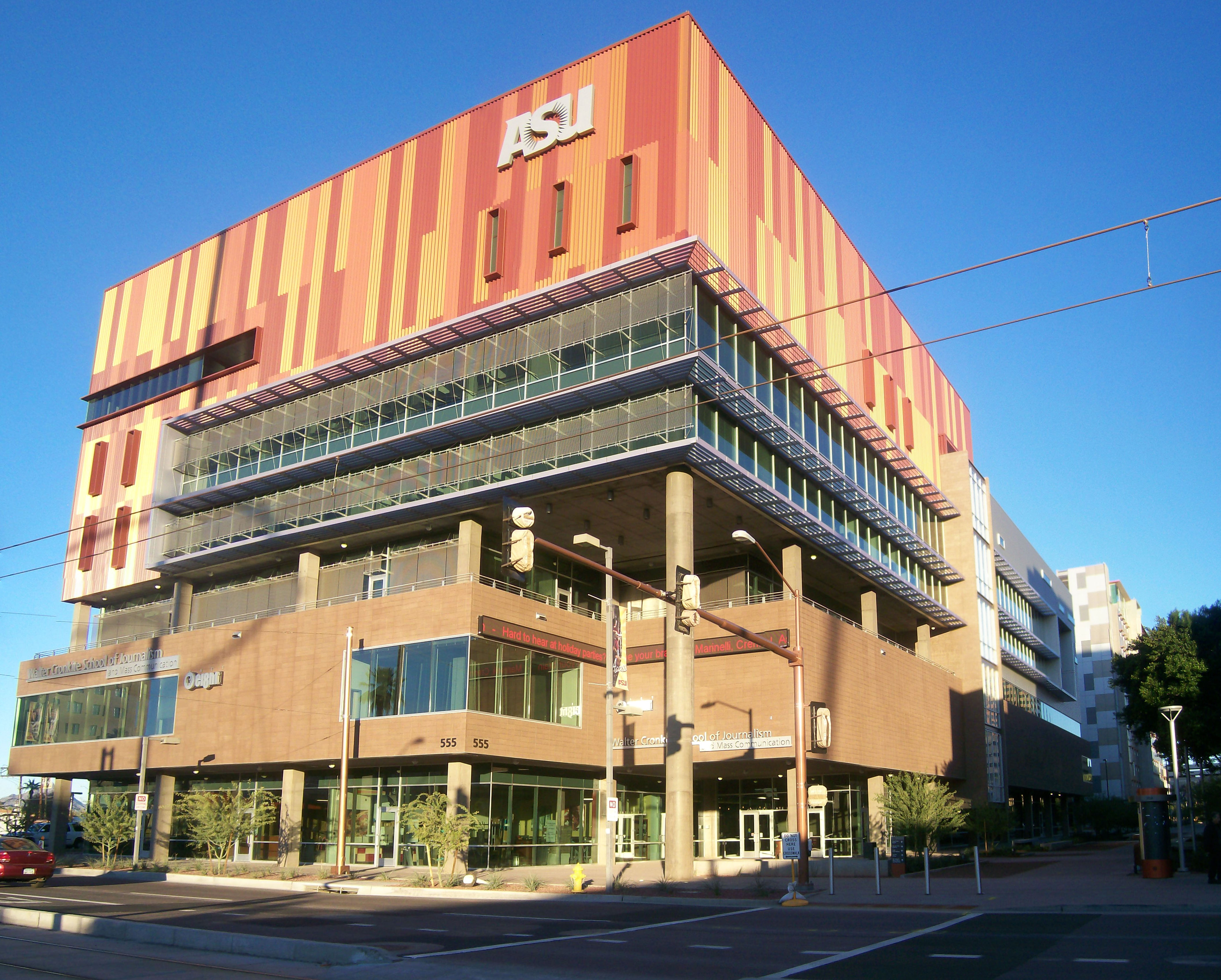 Photo of the Walter Cronkite School of Journalism and Mass Communication building. Part of the ASU Downtown Phoenix Campus in Phoenix, Arizona